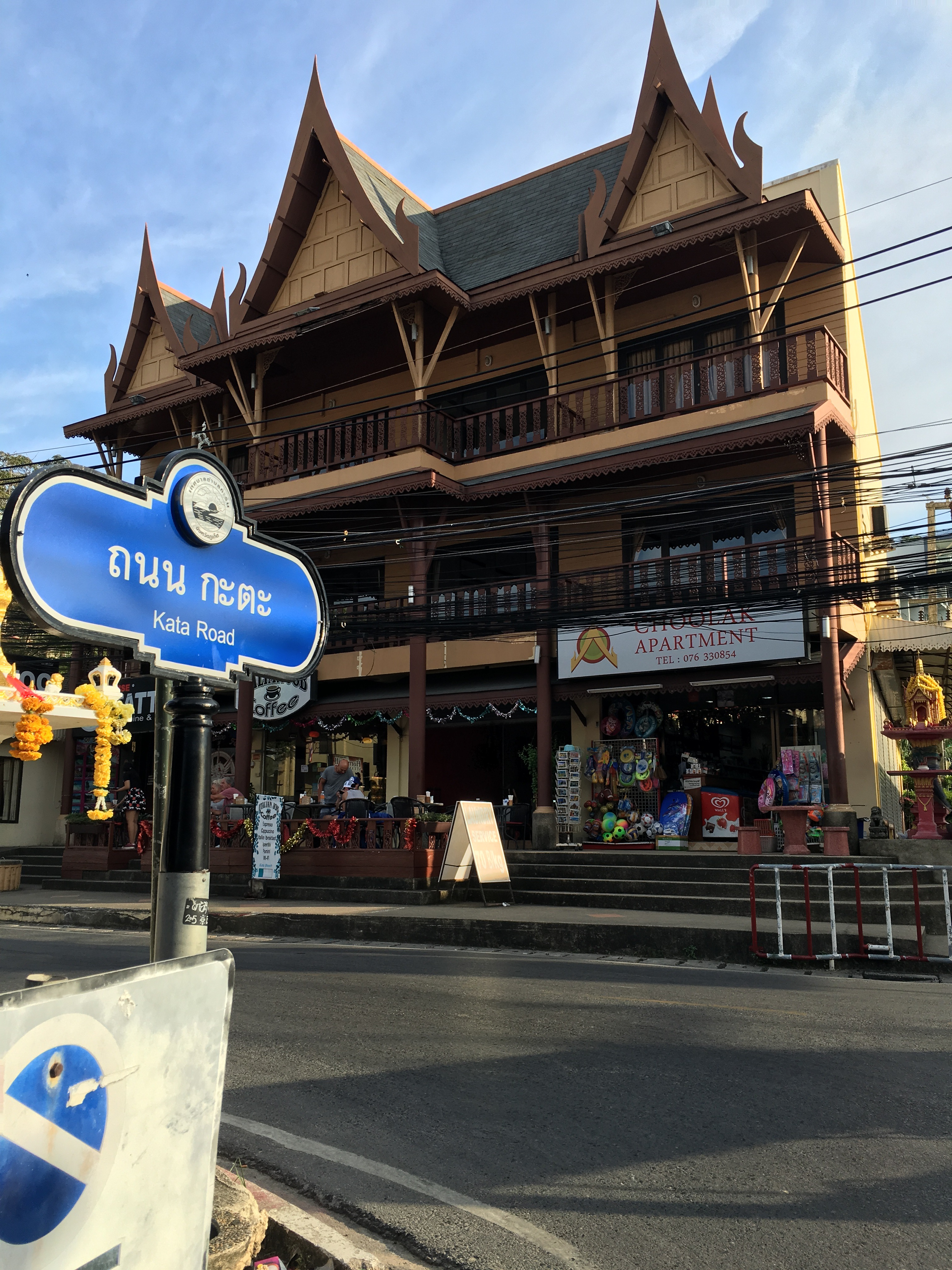 Street sign in Phuket, Thailand